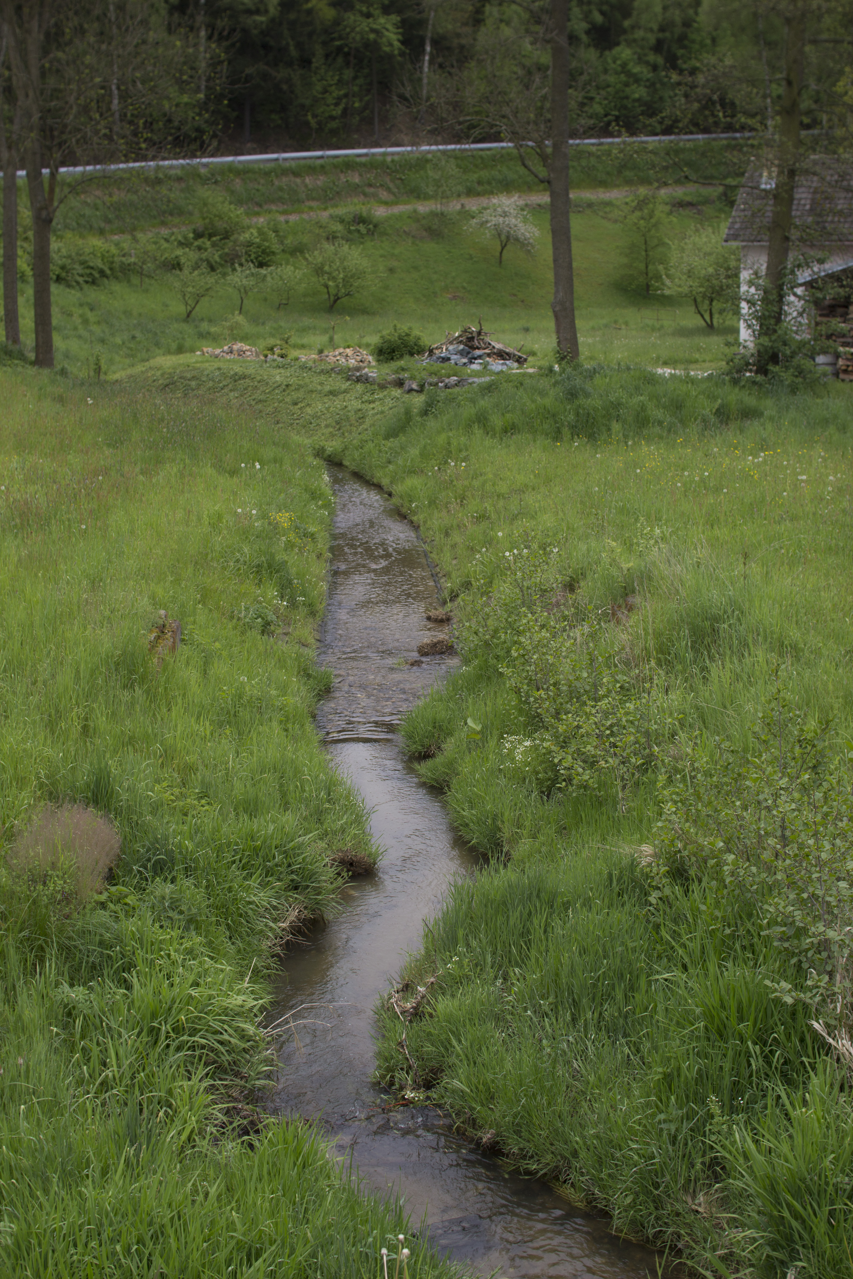 Dobrá, Přibyslav, Havlíčkův Brod District, Vysočina Region, Czech Republic